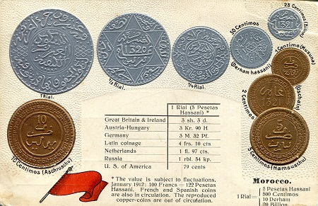 These postcards were designed by Hugo Semmler, a German businessman for cambists (people who exchange money 💴) to base their exchange courses on. After Hugo Semmler other people began producing these cards as well as they became highly popular souvenirs for tourists.